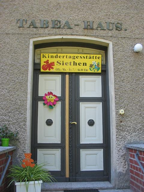 Siethen, part of Ludwigsfelde in the Landkreis (rural district) Teltow-Fläming, Brandenburg. Tabea-house, former „Kinderasyl“ (german for „asylum“, refuge for children) from 1855.